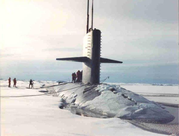 USS Pargo (SSN-650), a Sturgeon-class attack submarine, surfaced in Arctic ice.